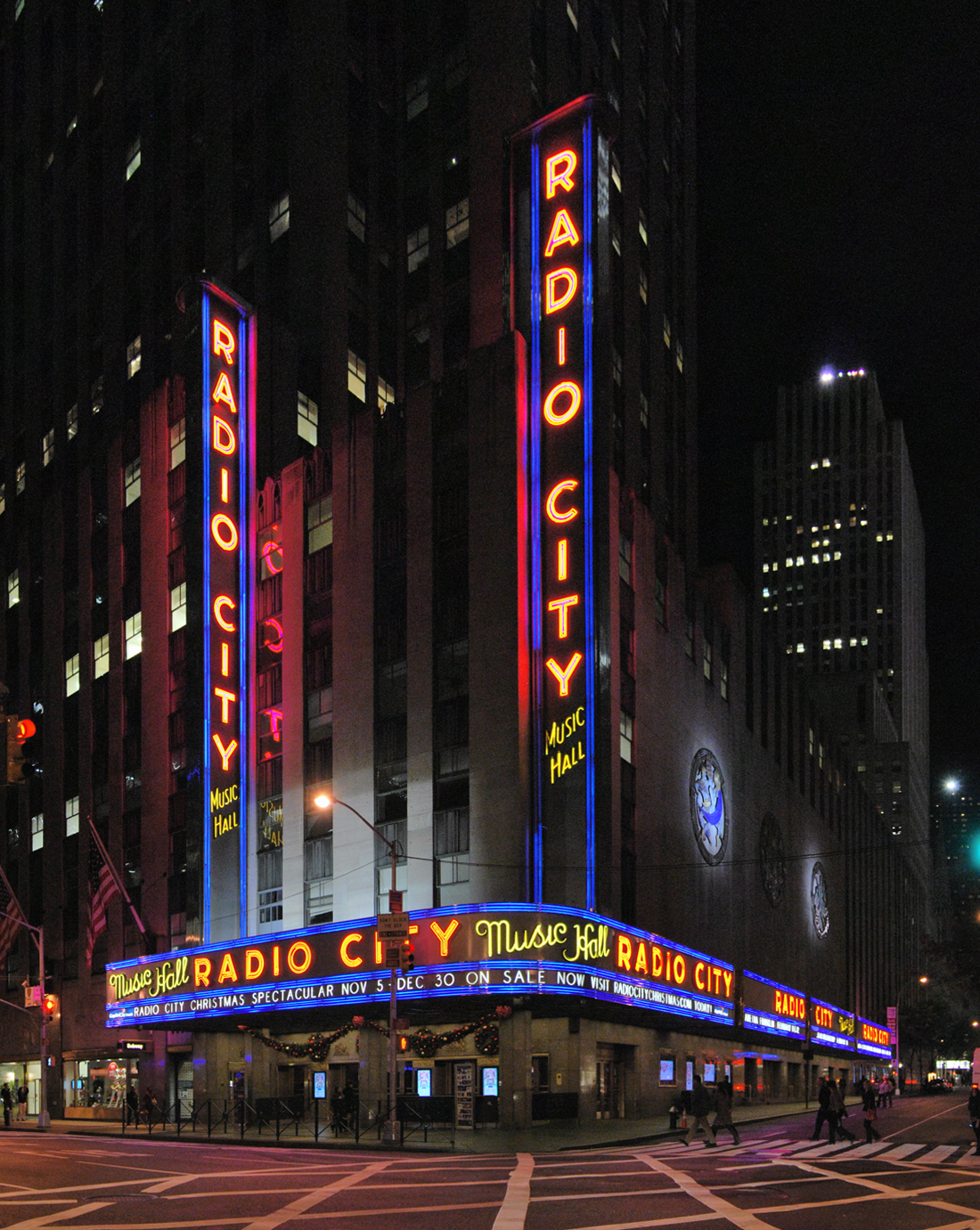 Radio City Music Hall at Rockefeller Center in New York City